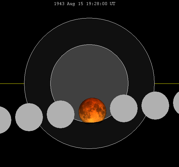 Lunar eclipse chart